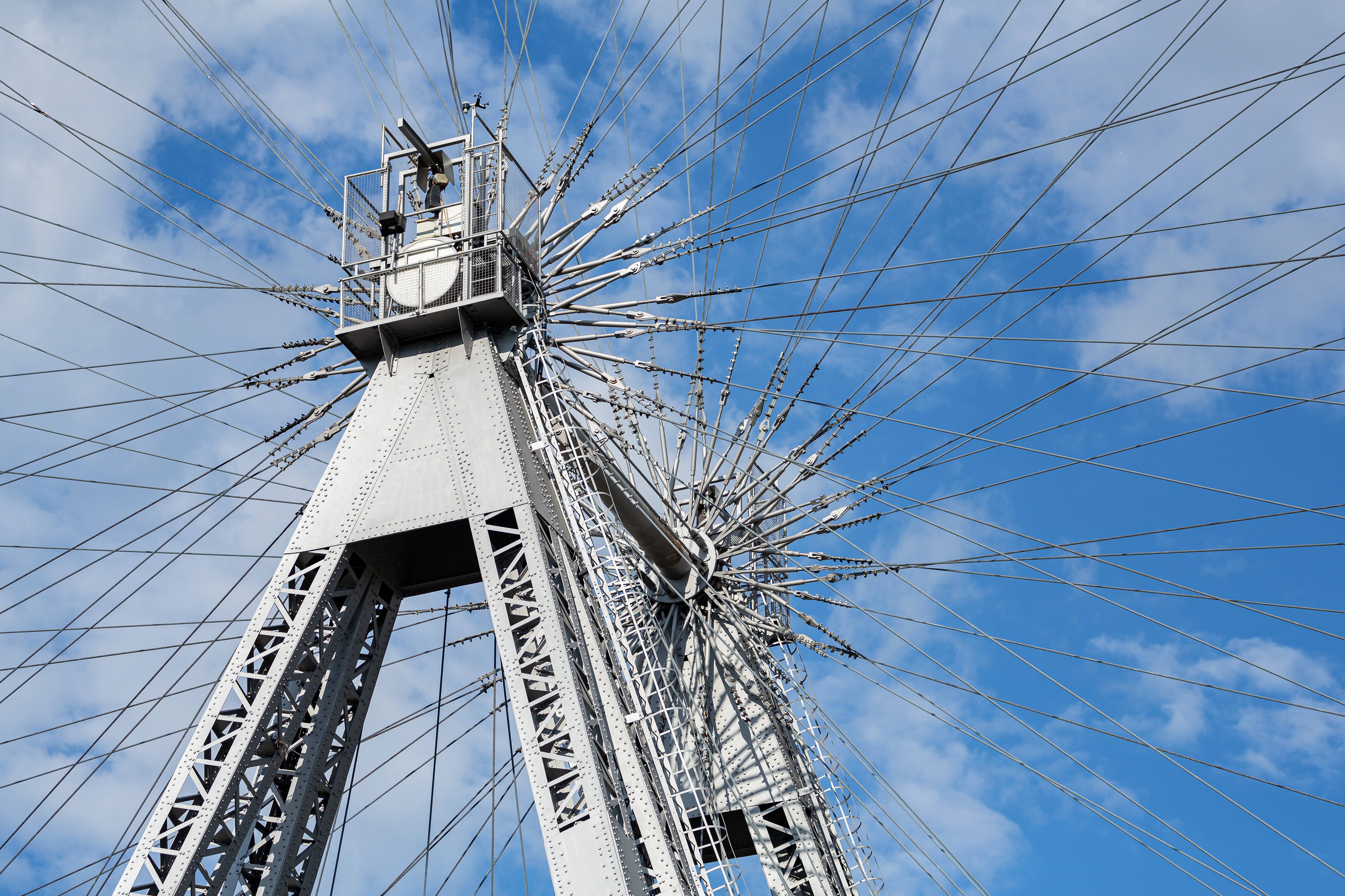 Axis of the Riesenrad at Prater in Vienna, Austria